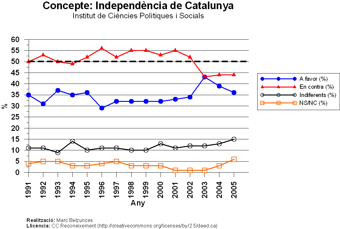 Support for the Independence of Catalonia in the Autonomous Community of Catalonia according to the ICPS, 2006.